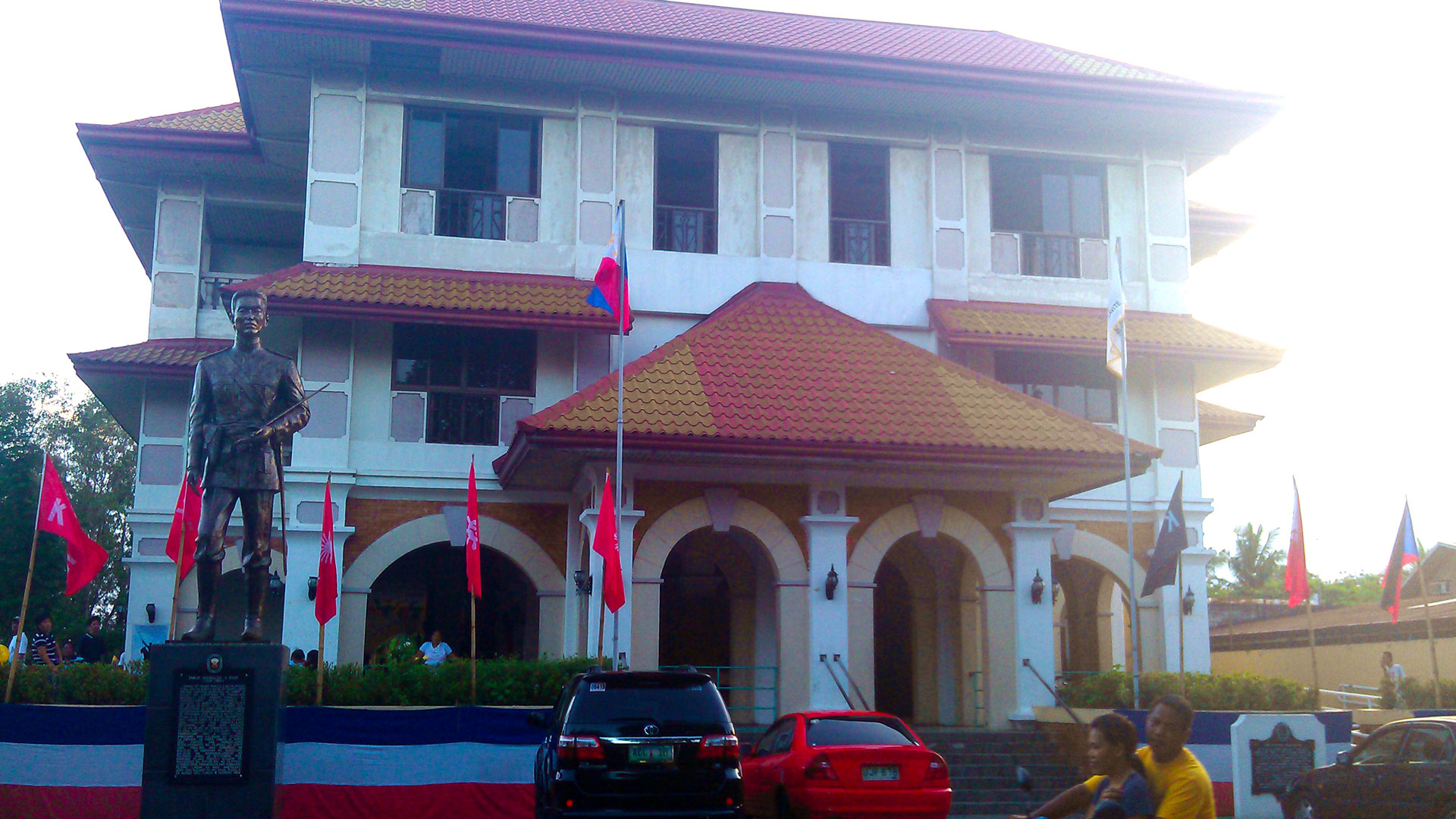 Tejeros Convention house is the site of the elections of the revolutionary government of the Philippines where Emilio Aguinaldo was elected as president.